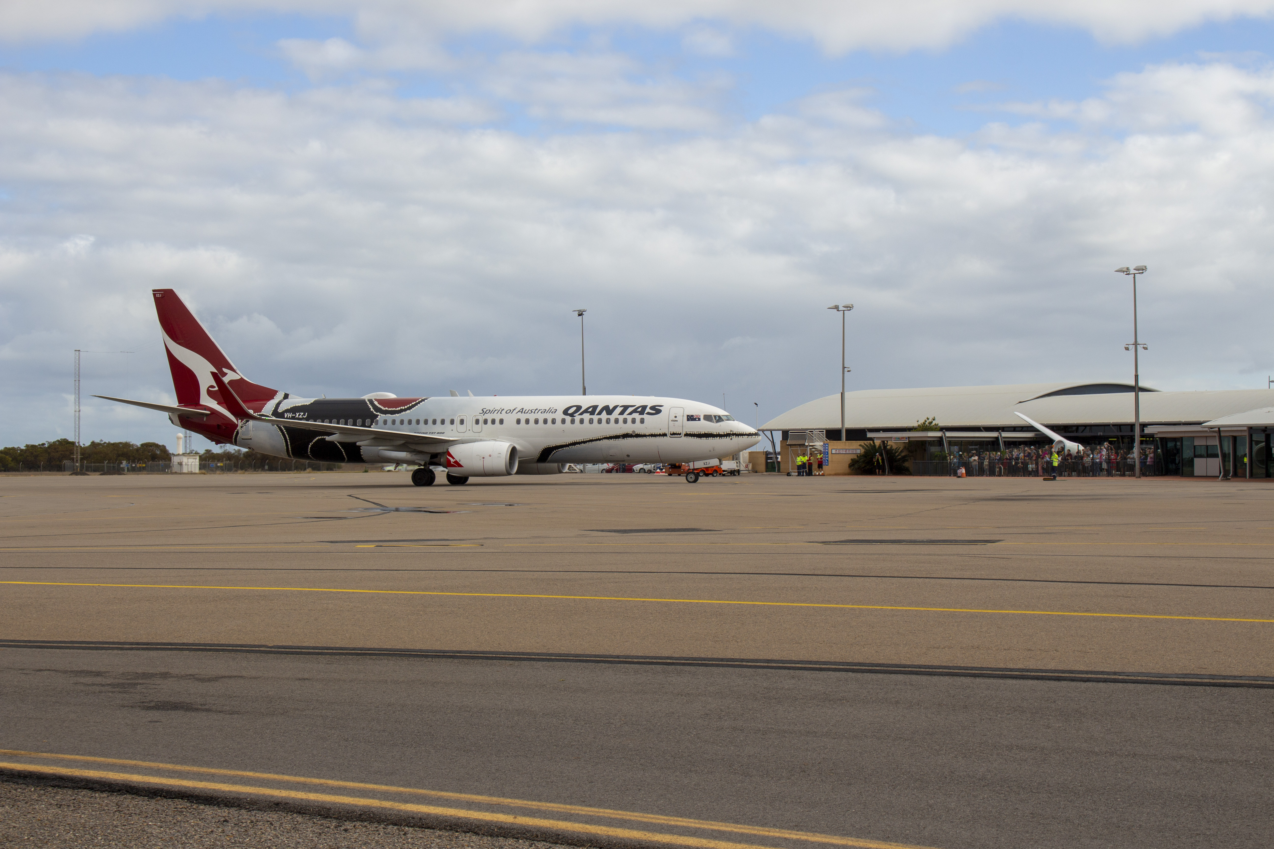 VH-XZJ "Mendoowoorrji" parked on the apron at Geraldton Airport greeted by a large crowd. Photographed by